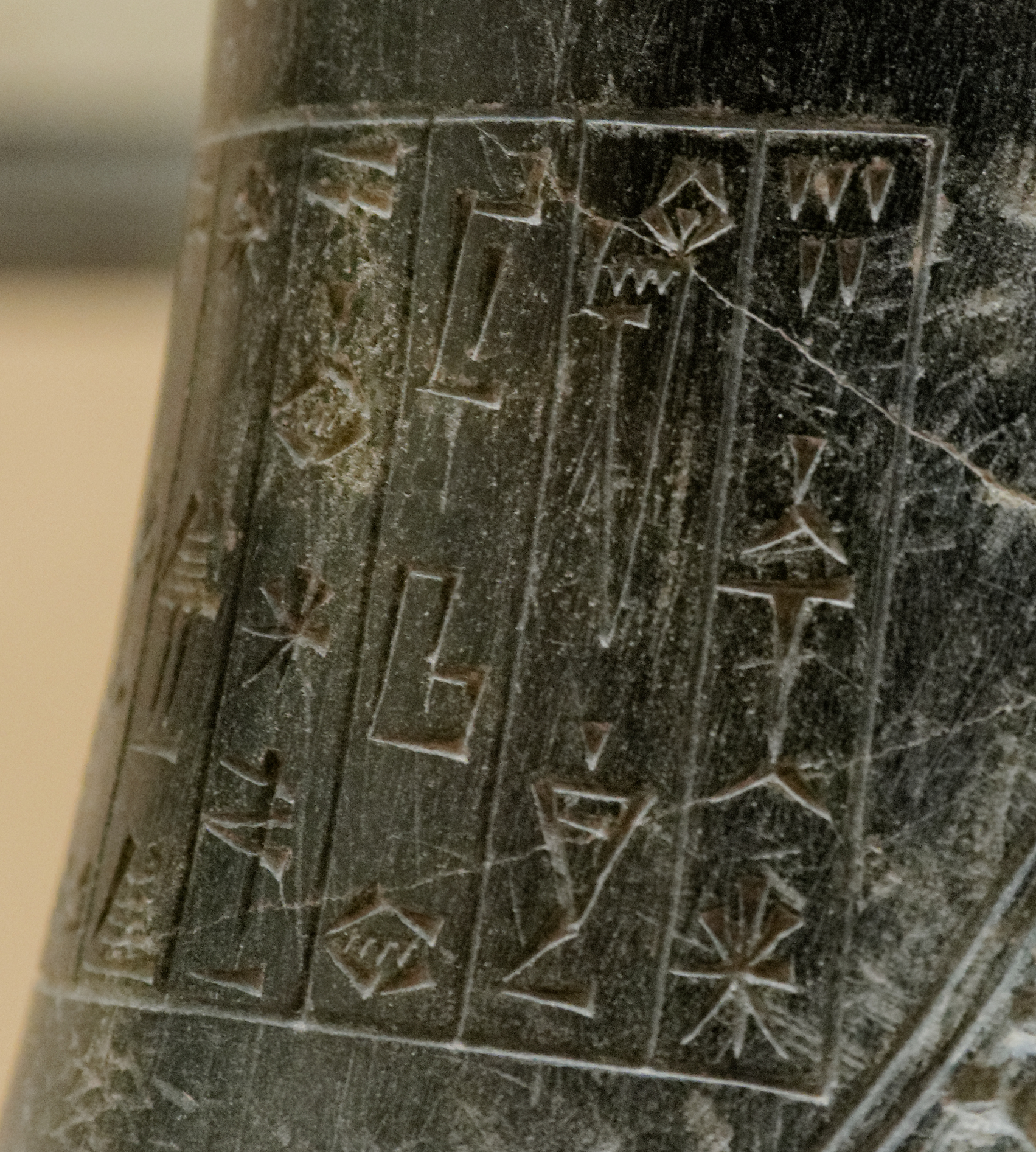 Statue of Idi-ilum, šakkanakku of Mari, dedicated to Ishtar. From the palace of Zimri-Lim in Mari.